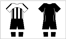 Kits of Neftchi Baku